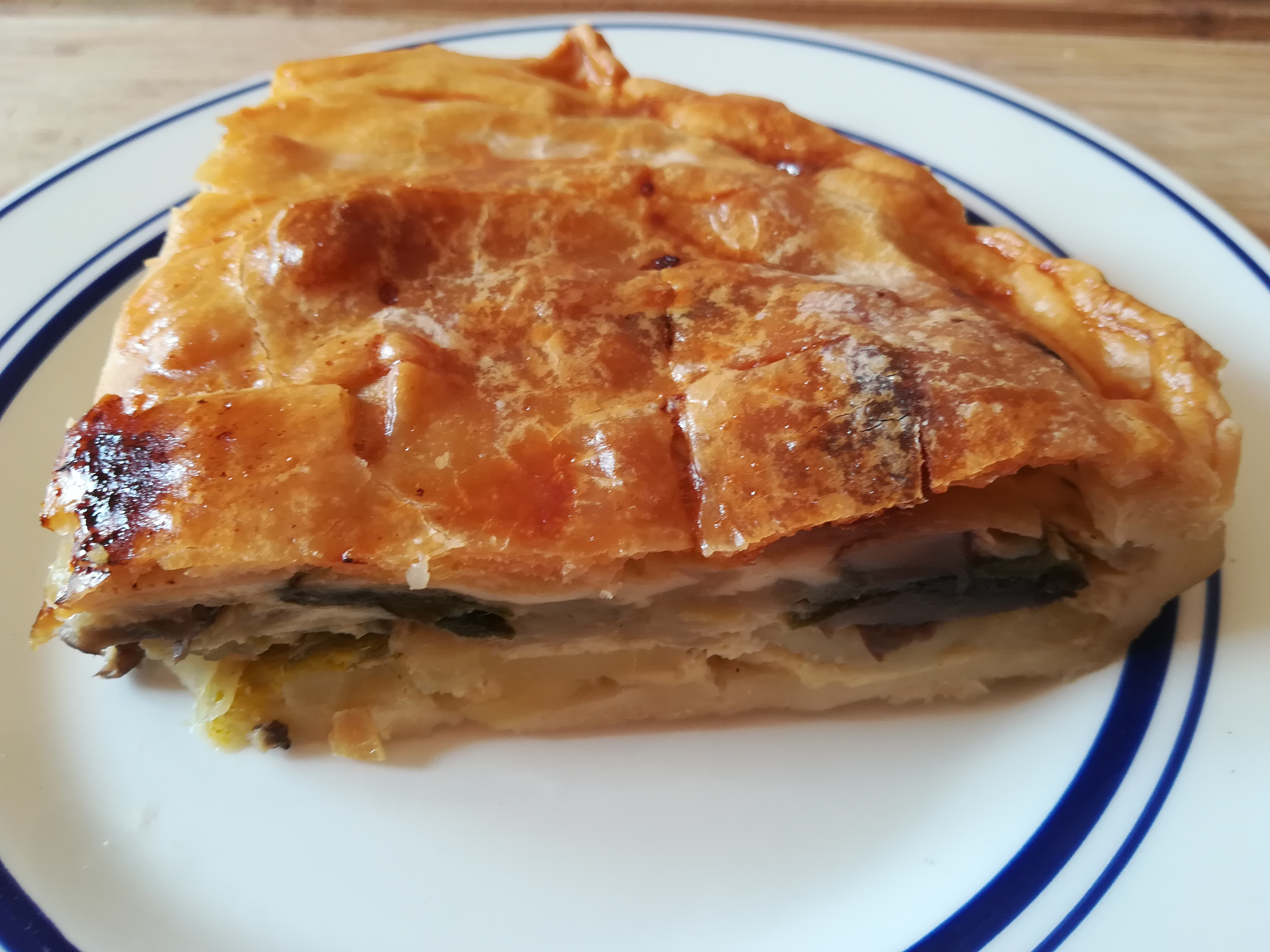 Cholera, a traditional pie from canton Wallis, Switzerland